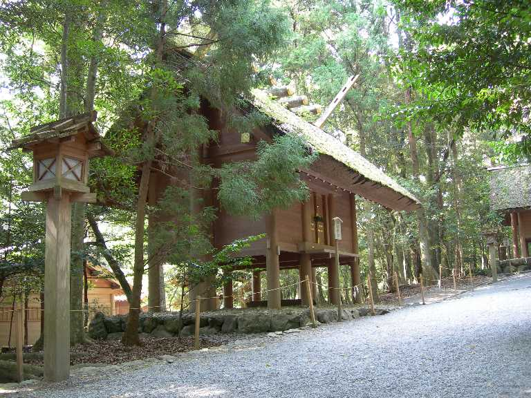 Mishine-no-mikura is a shokansha of Kotaijingu(Naiku) at Ise city. Mie prefecture, Japan.